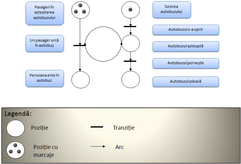 Reprezentarea grafică a unei reţele executabile